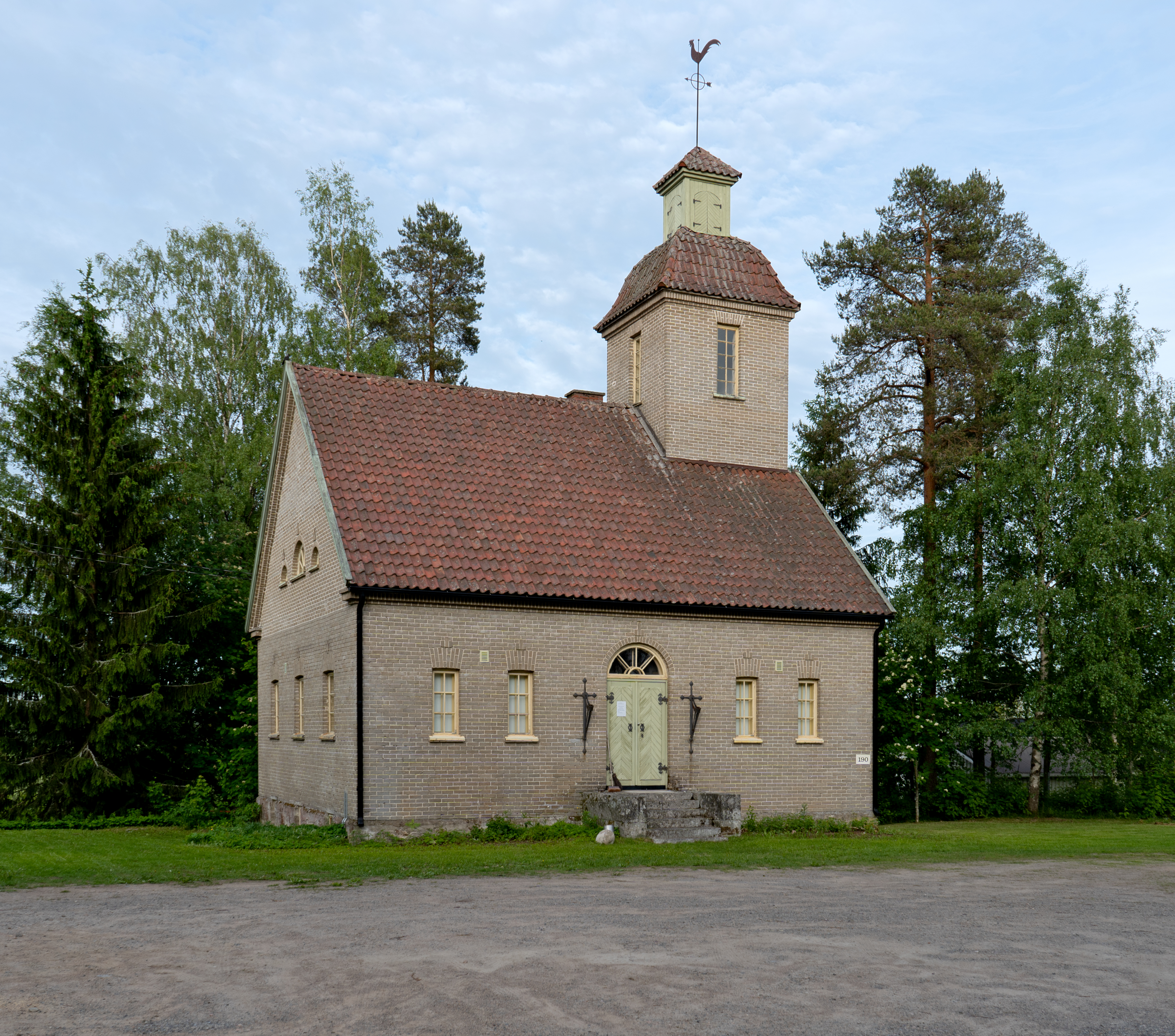 Museum in Veteli, Finland.